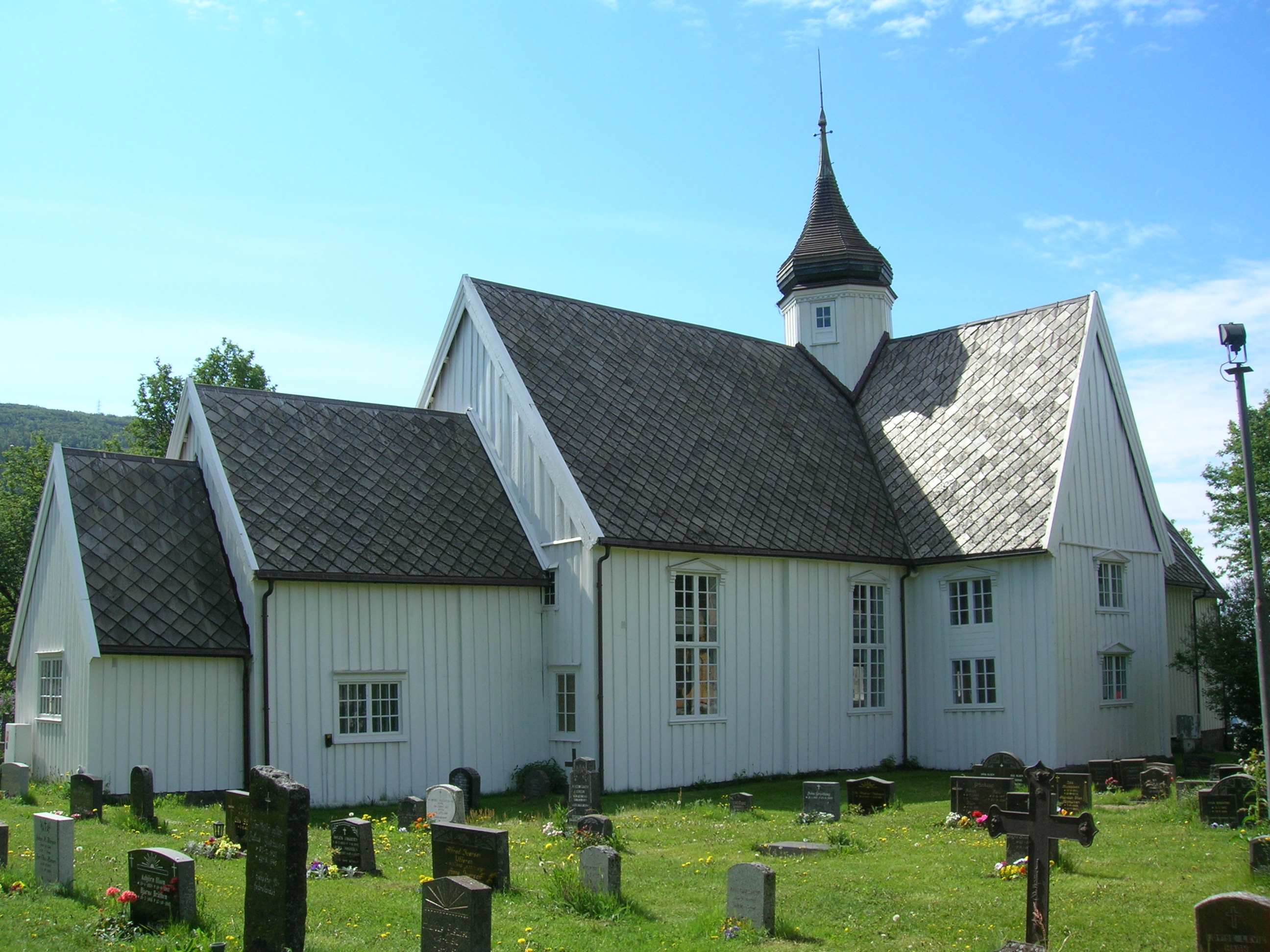 Mo church in Mo i Rana, municipality, Nordland, Norway, Photo June 10, 2007 with a Nikon Coolpix 5600 5,1 Megapixel camera.